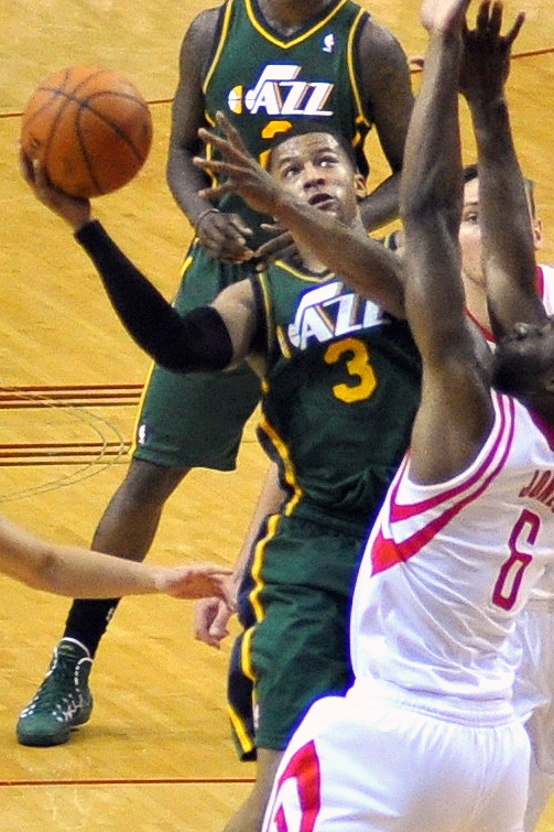 Trey Burke of the Utah Jazz goes up for a shot as Terrence Jones of the Houston Rockets defends during an NBA basketball game on March 17, 2014, at the Toyota Center in Houston, Texas.